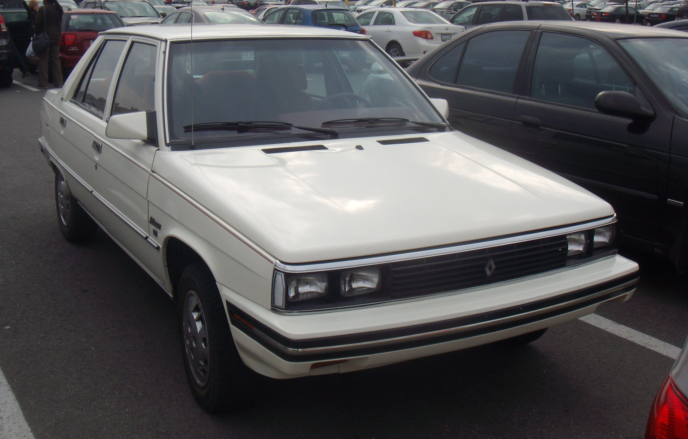 1986 Renault Alliance photographed in Montreal, Quebec, Canada.